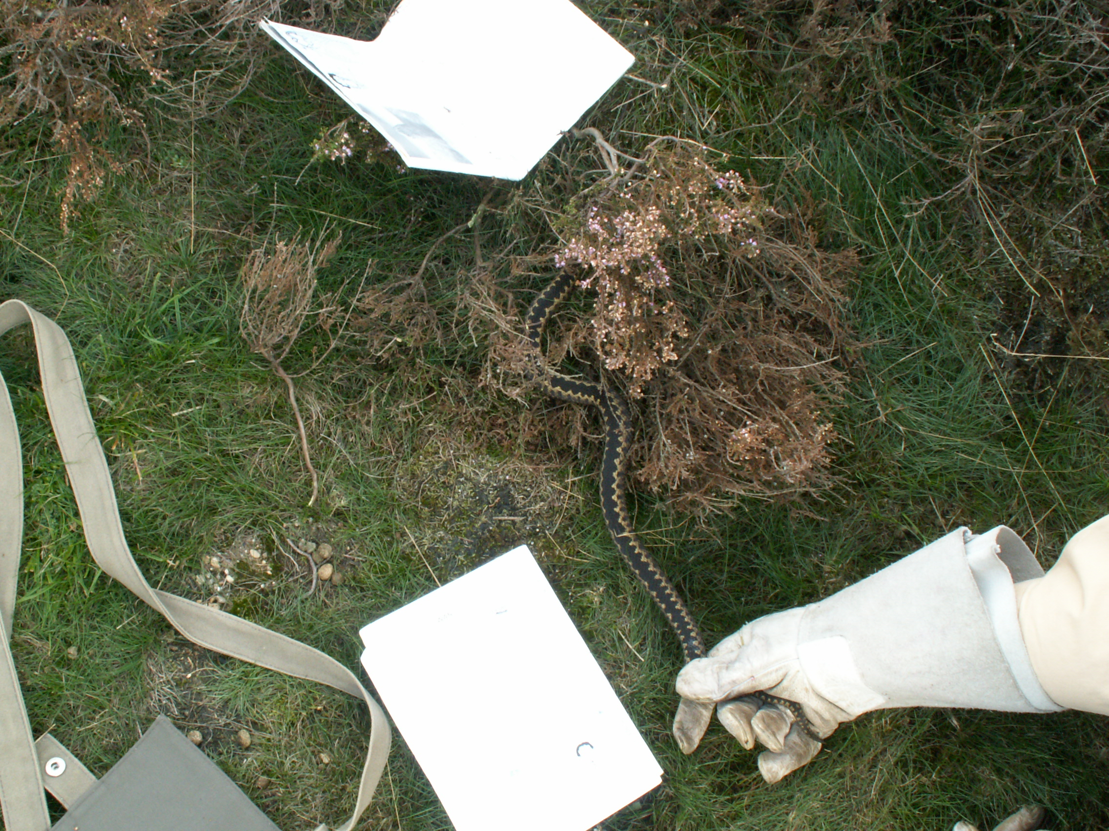 Research Adder Recognition The Netherlands